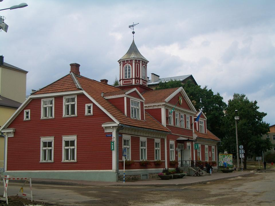 Valga Town Hall, built in 1865.